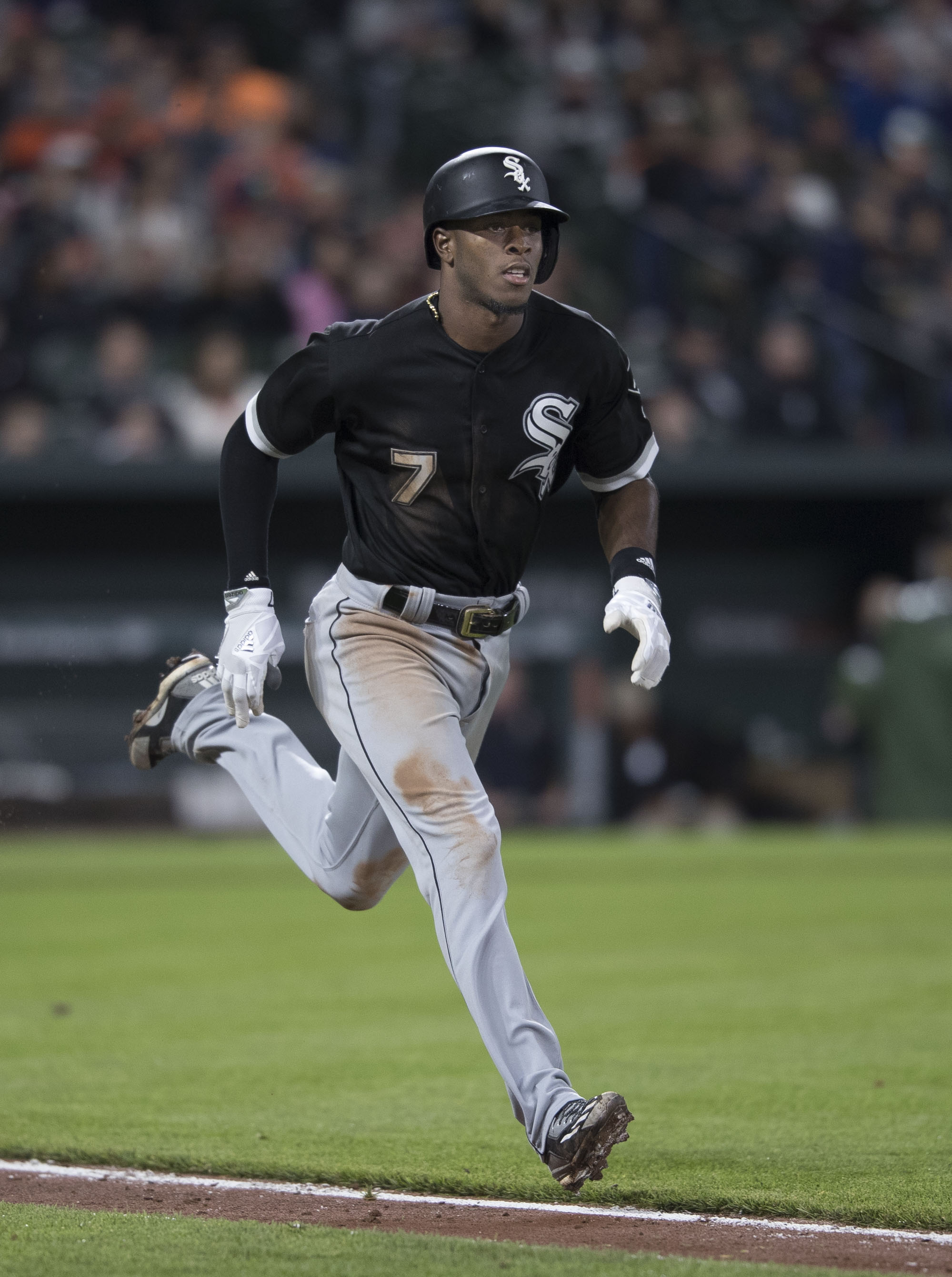 White Sox at Orioles 5/6/17